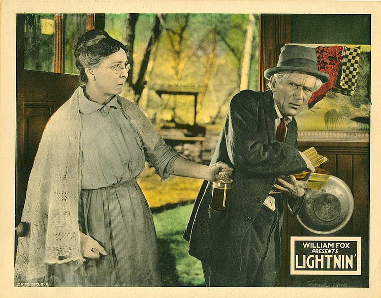 Lobby card for the American comedy film Lightnin (1925).